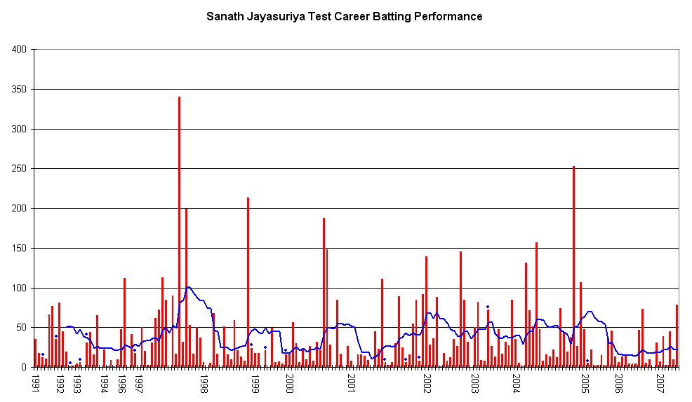 This graph details the Test Match performance of Sanath Jayasuriya. The red bars indicate the player's Test match innings, while the blue line shows the average of the ten most recent innings at that point. Note that this average cannot be calculated for the first nine innings. The blue dots indicate innings in which Jayasuriya finished not-out. This graph was generated with Microsoft Excel 2002, using data from Cricinfo and .au.